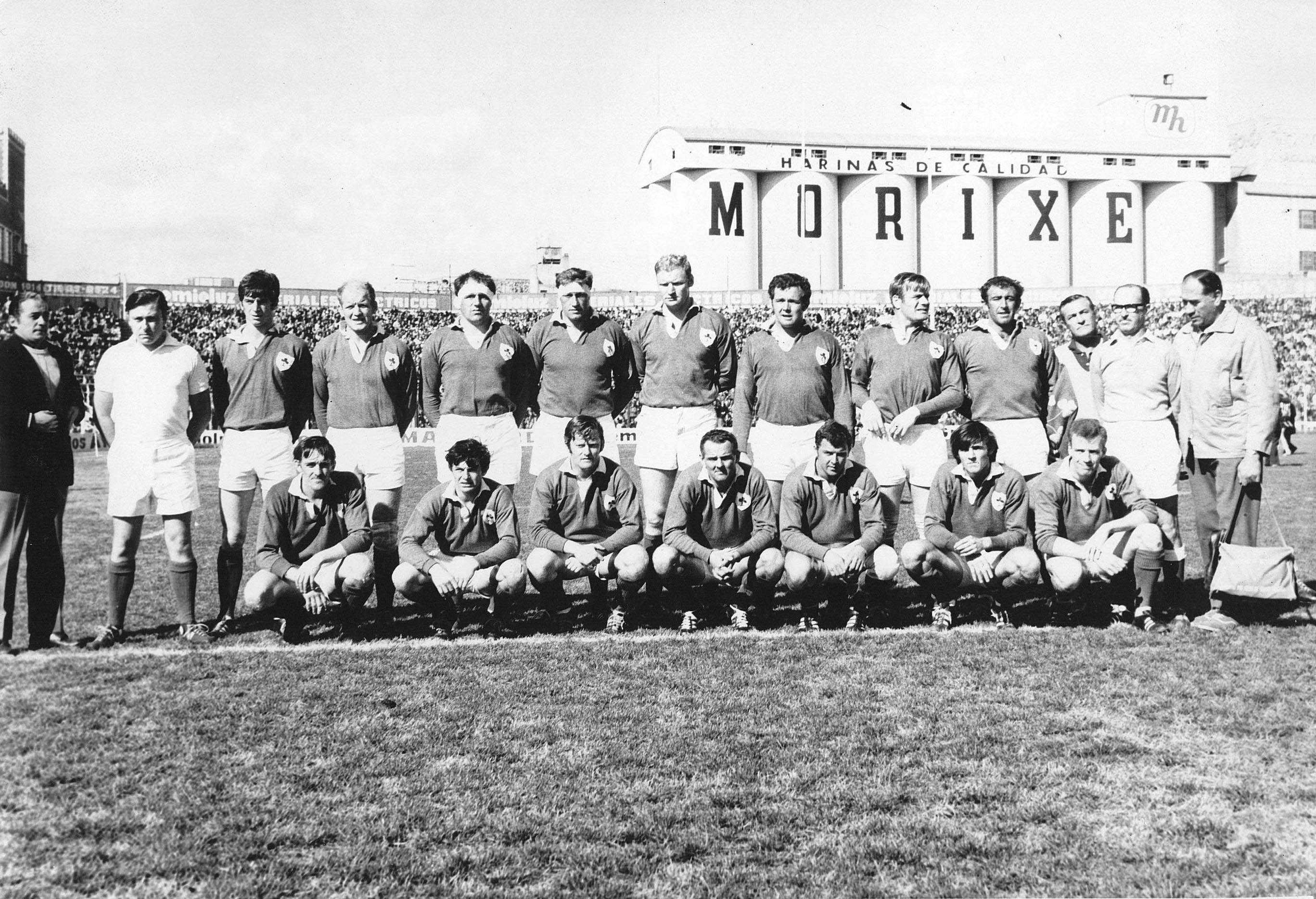 The Irlanda national rugby team that played Argentina at Ferro C. Oeste.